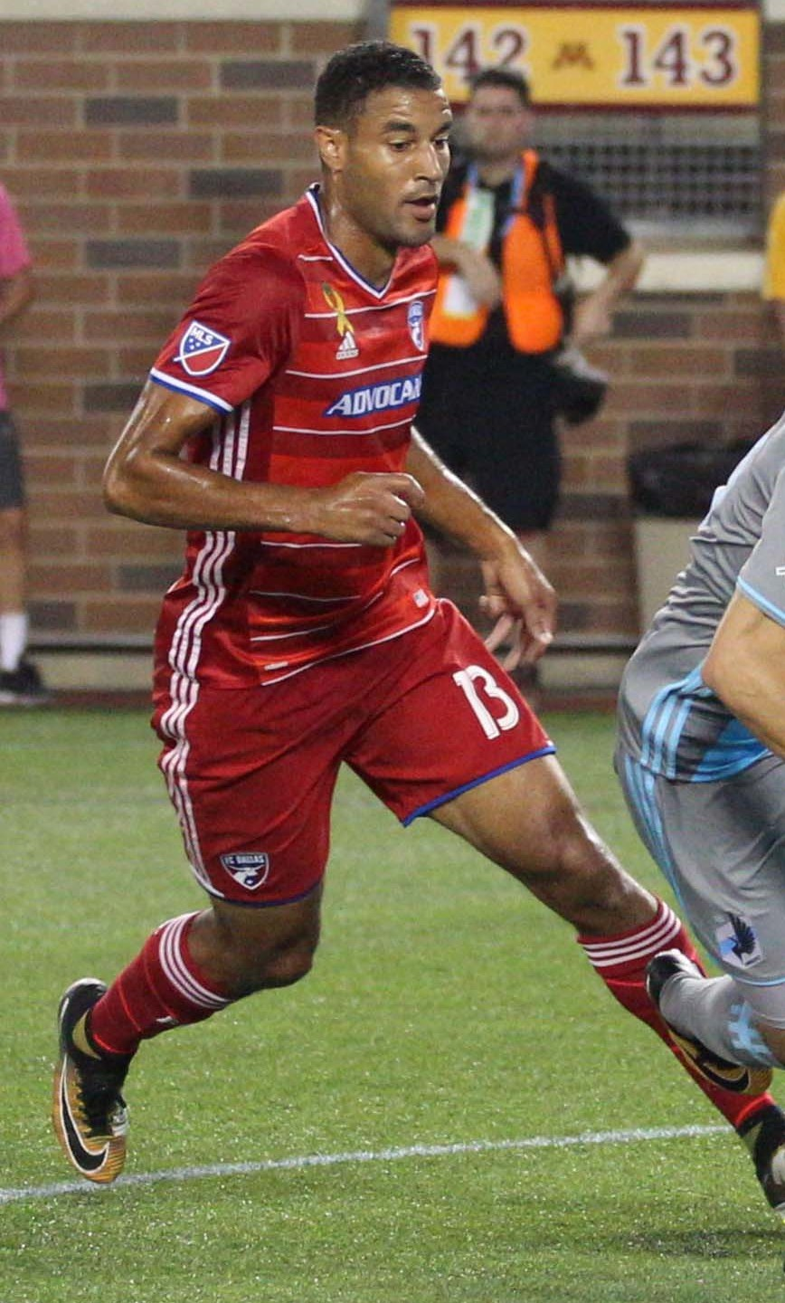 MNUFC - Minnesota United - MLS - FC Dallas